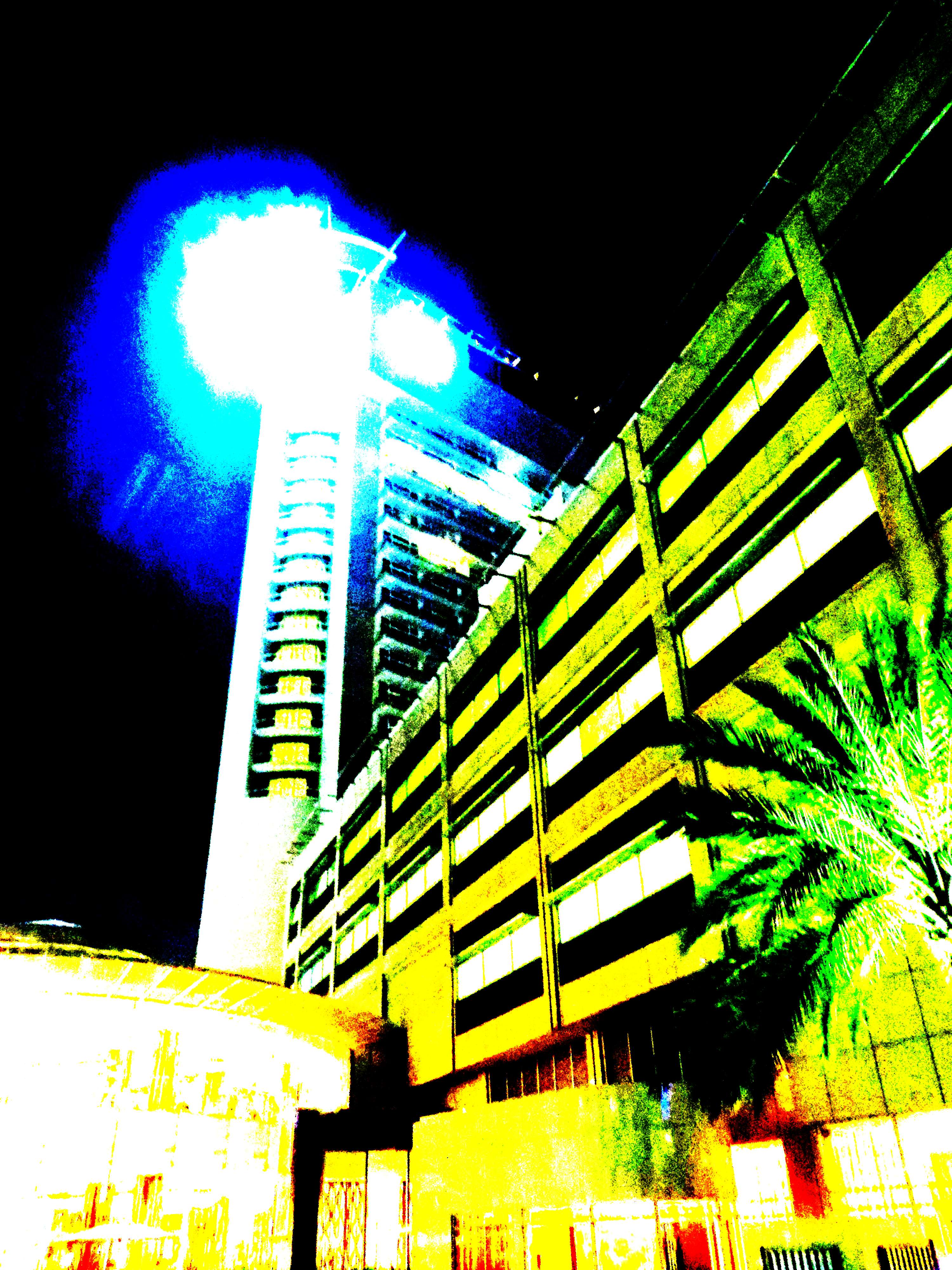 Beach Rotana Abu Dhabi, UAE. Hotel tower at night, painting.